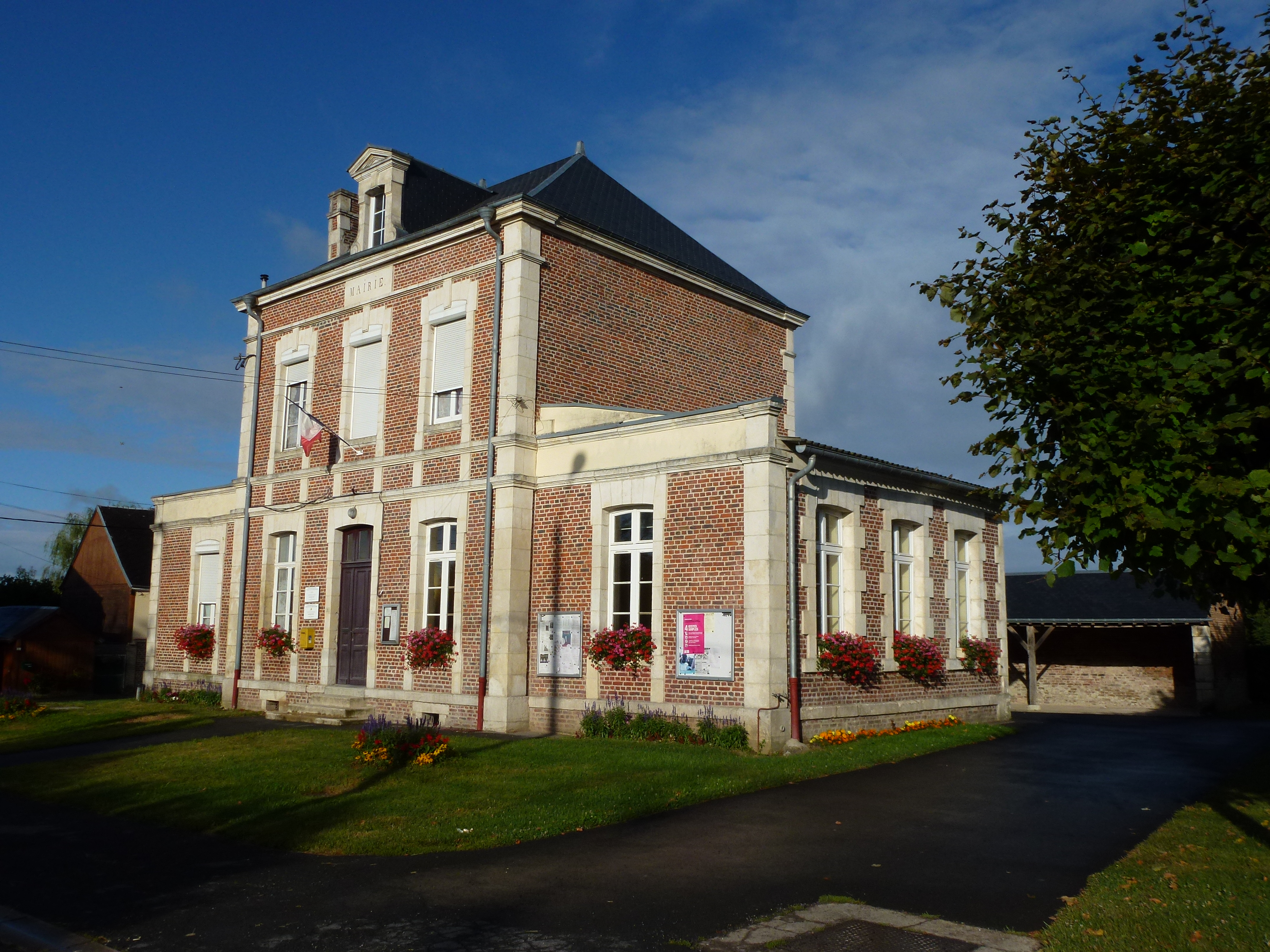 Grandchamp (Ardennes) mairie-école